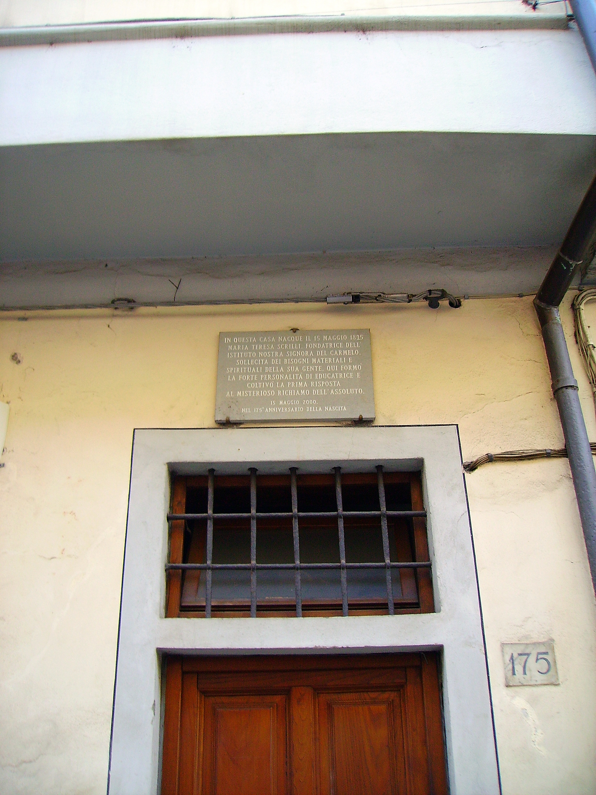 Birthplace of Sister Maria Teresa Scrilli, beatified by the Catholic Church, on via Roma